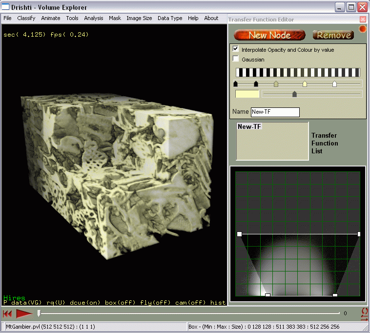 Screenshot from Drishti showing the user interface.